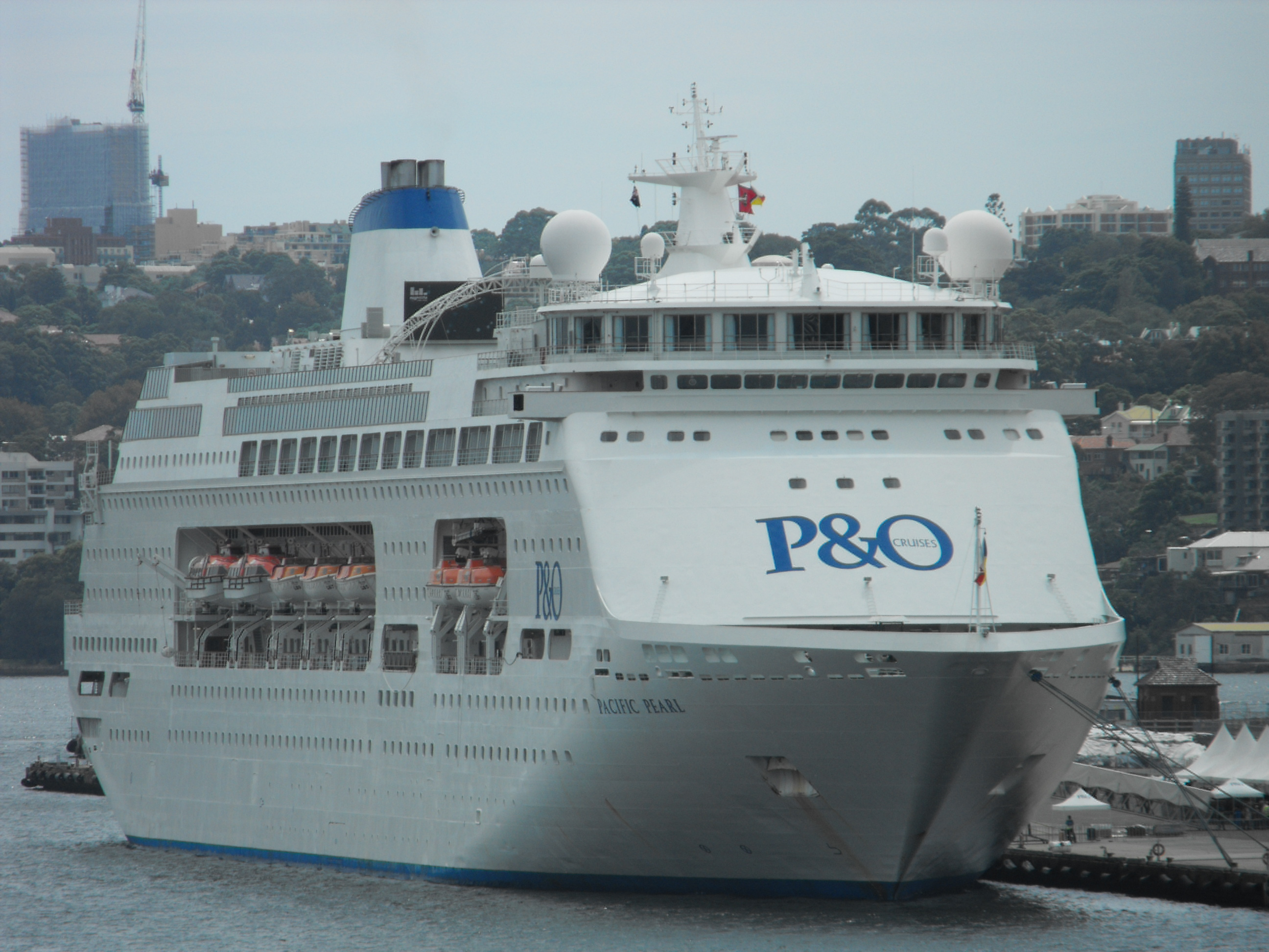 The cruise ship Pacific Pearl berthed at Darling Harbour on 1 March 2012